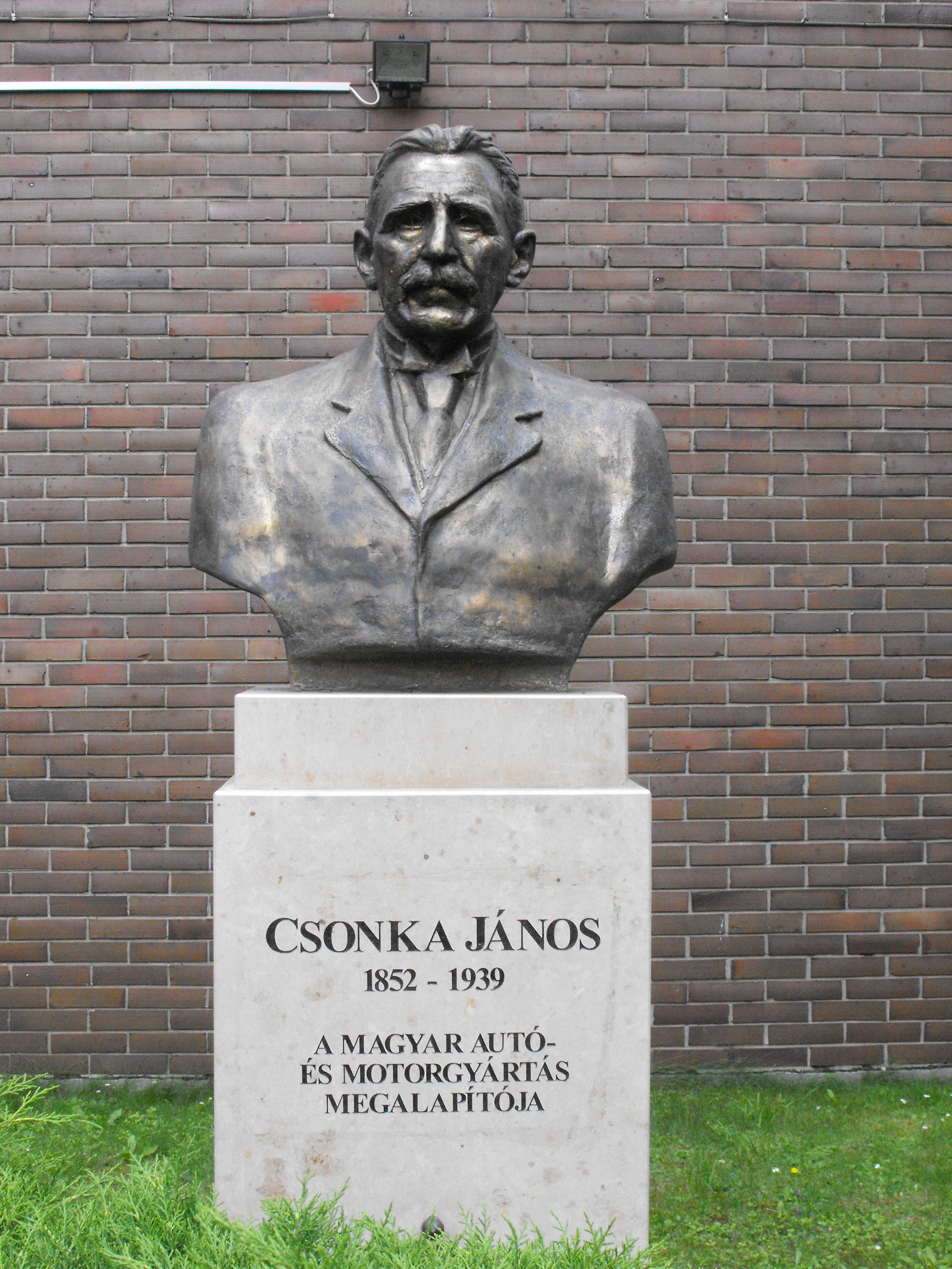 Statue of János Csonka in Szeged, Hungary.